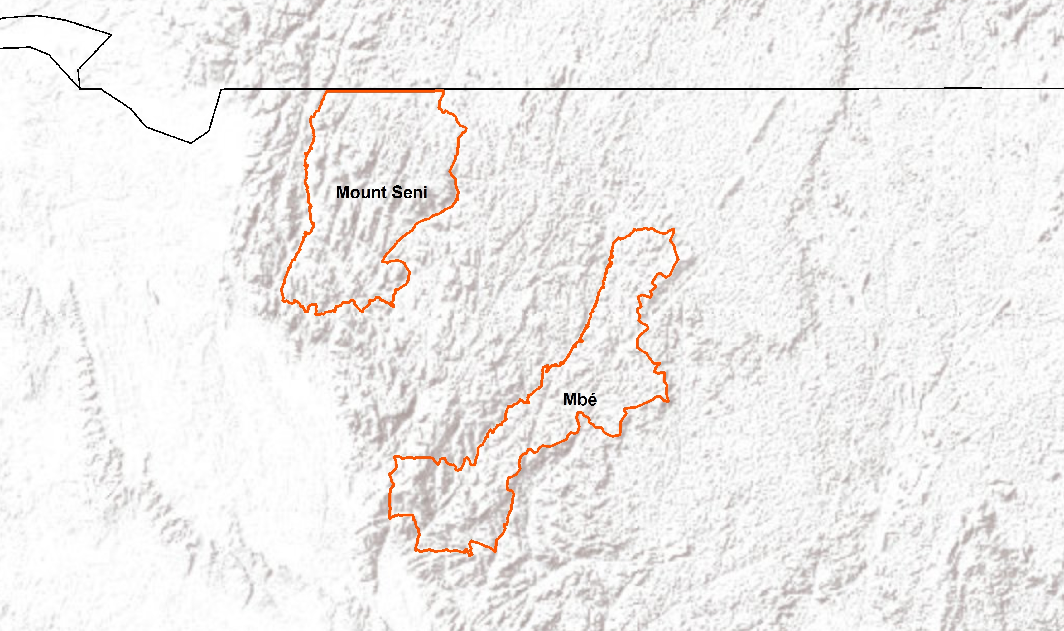 Geographical depiction of the Monts de Cristal (Crystal Mountains) twin park showing the Mt Sene and Mbe sector.